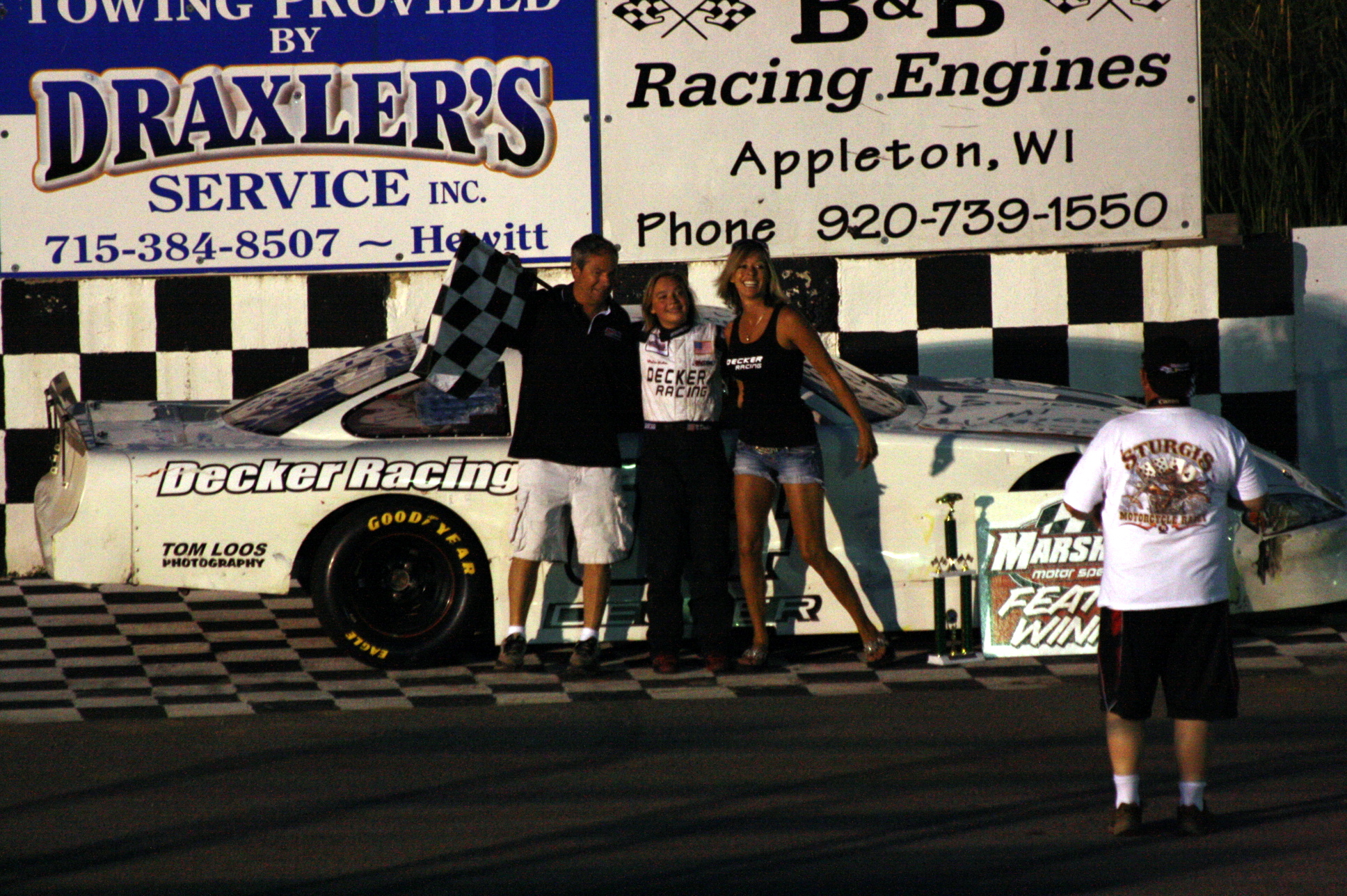 The Super Stock car of Natalie Decker after winning the feature at Marshfield Motor Speedway.